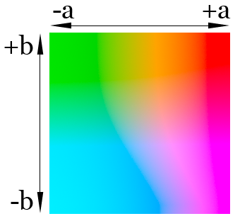 Lab color space at luminance 75%